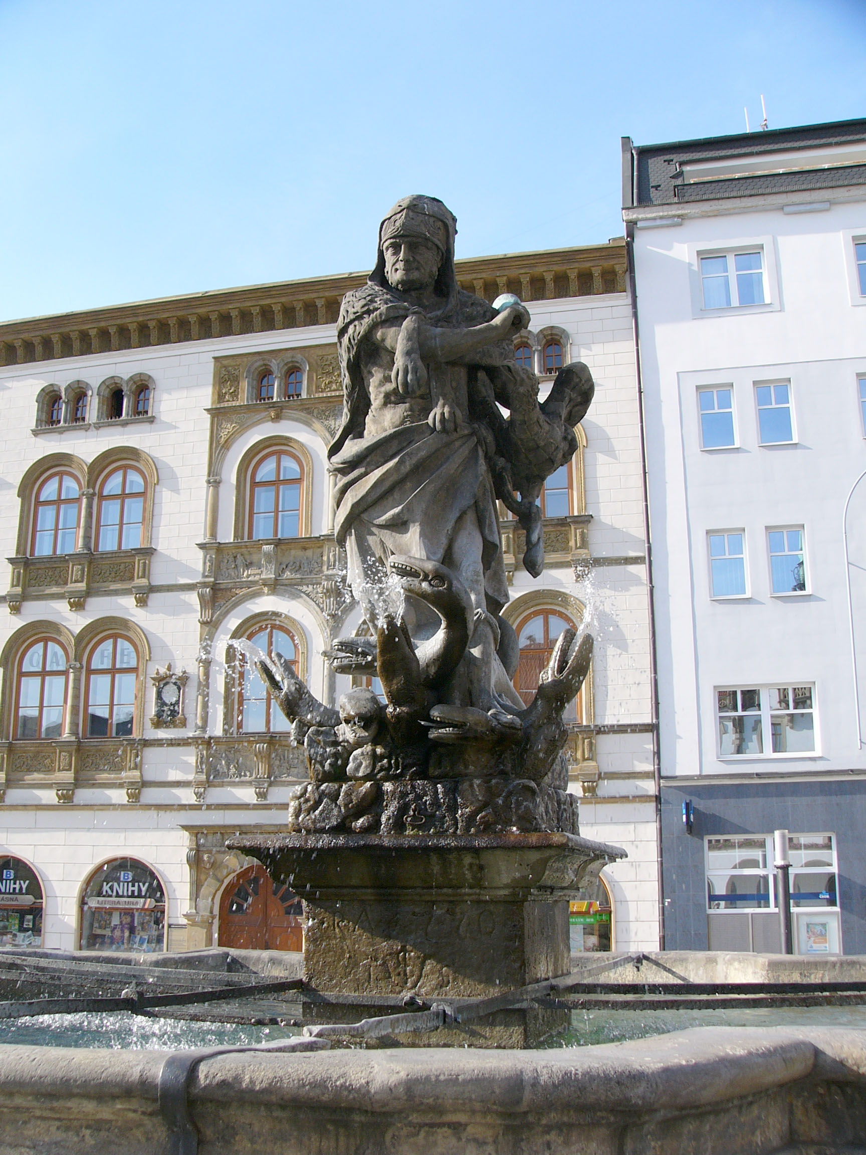 Fountain of Herkules in Olomouc (Czech Republic).